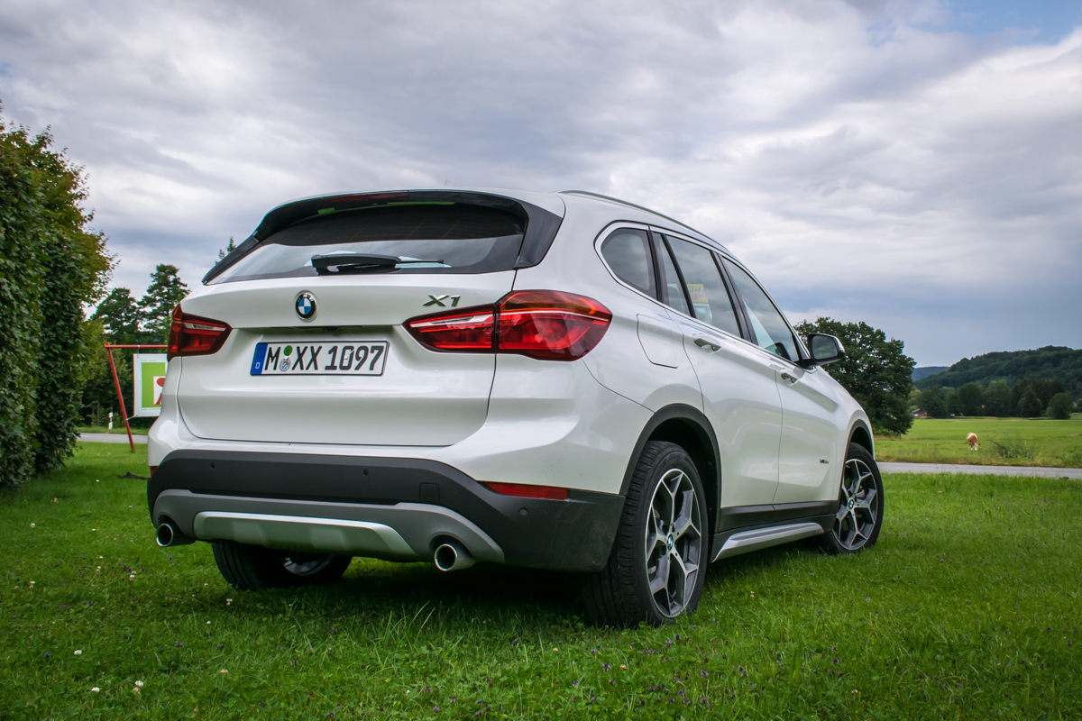 Back of the BMW X1 F48, 2016 model year